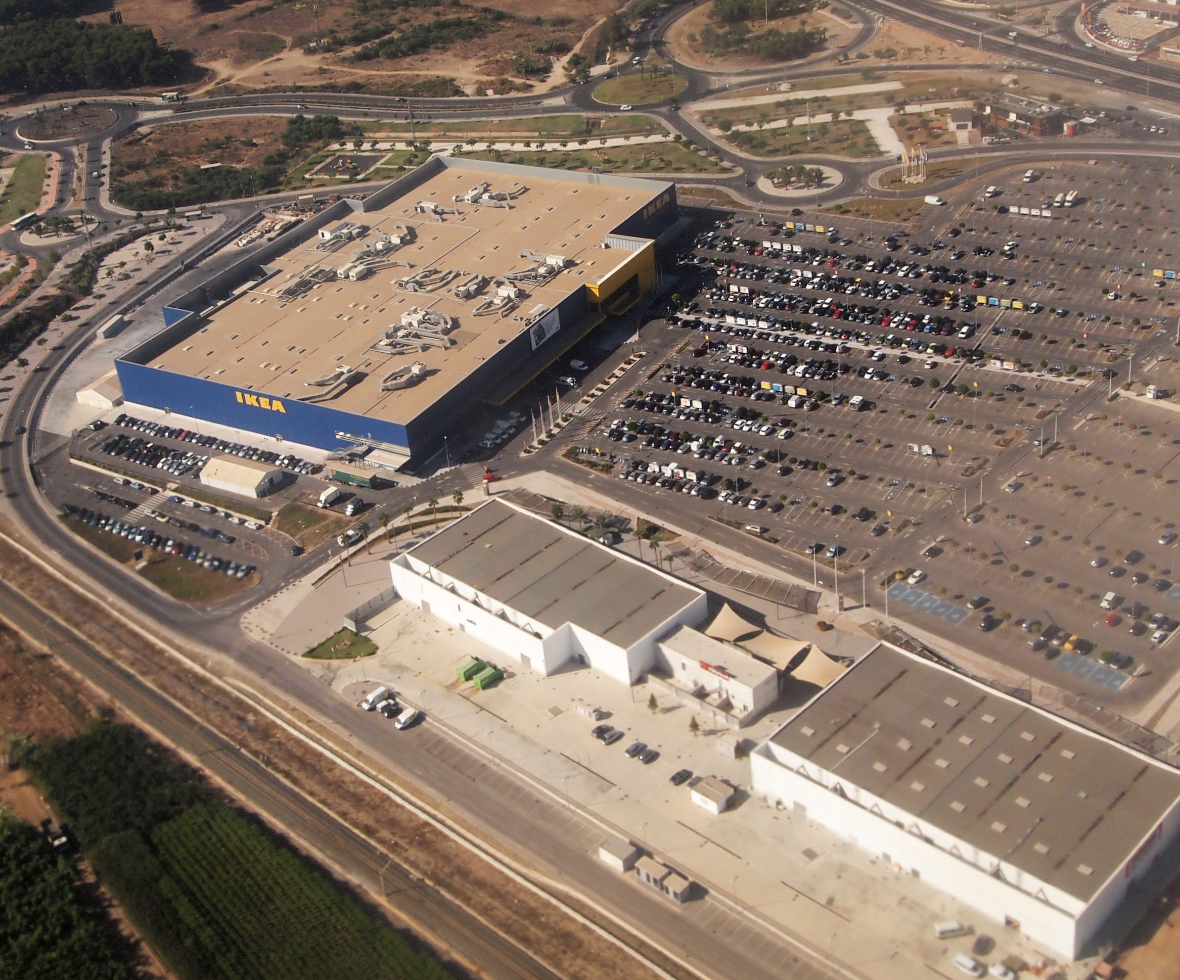 View from airplane towards Ikea in Malaga. This photograph was taken with a Olympus E-PL1.